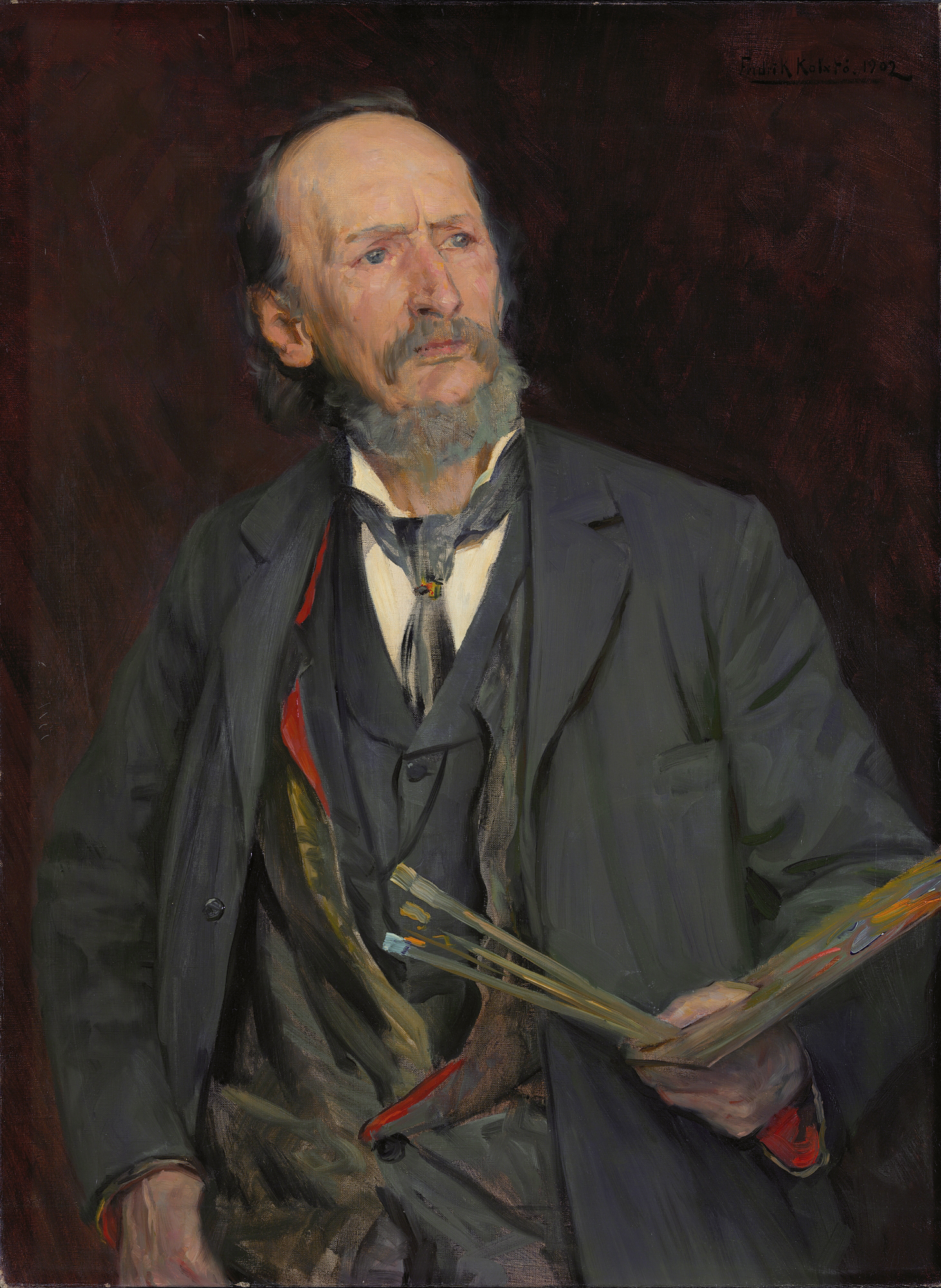 Amaldus Nielsen oil on canvas 90 x 66 cm signed t.r.: Fridrik Kolstø. 1902